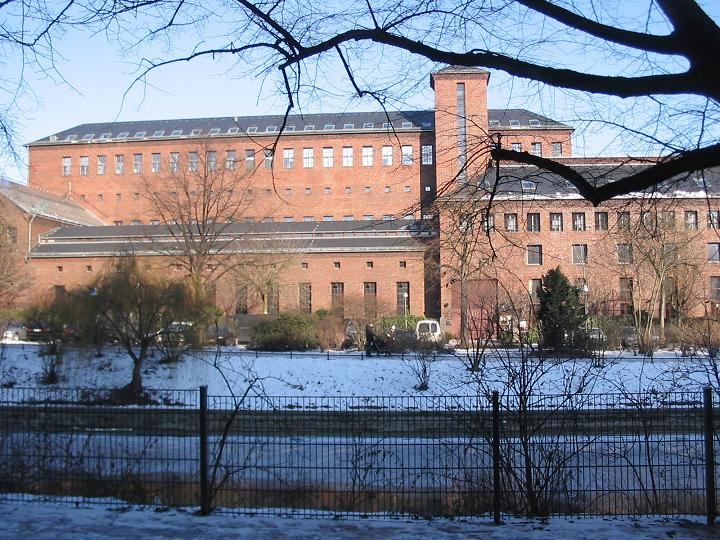 Listed transforming station at Landwehrkanal in Berlin-Kreuzberg, Paul-Lincke-Ufer. Built in 1924/28 by Heinrich Müller in expressionistic style. Closed down 1984. The momumental building is called by the Berliners: Cathedral of electricity.